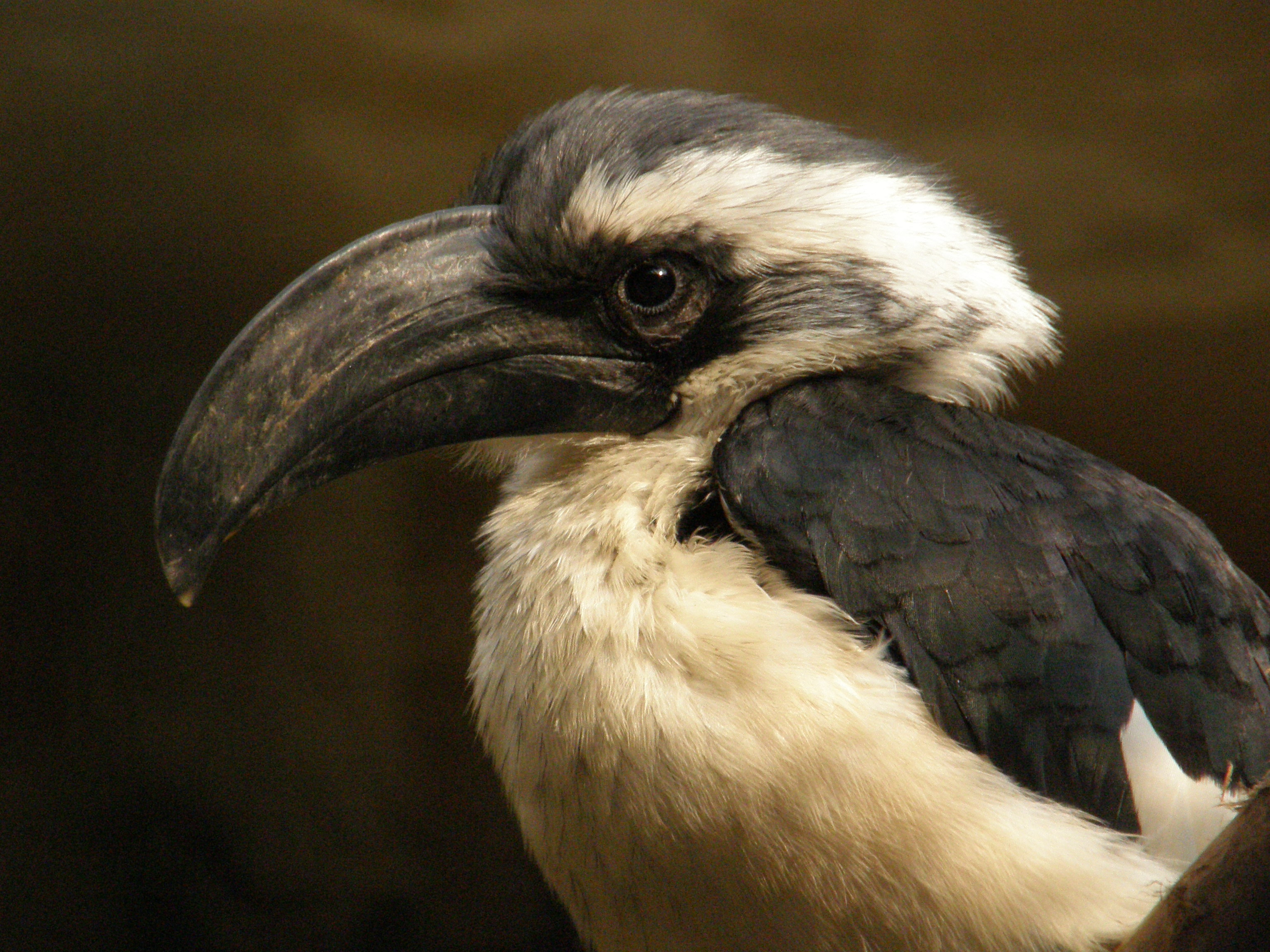 Von der Decken's Hornbill (Tockus deckeni). Female at Antwerp Zoo.